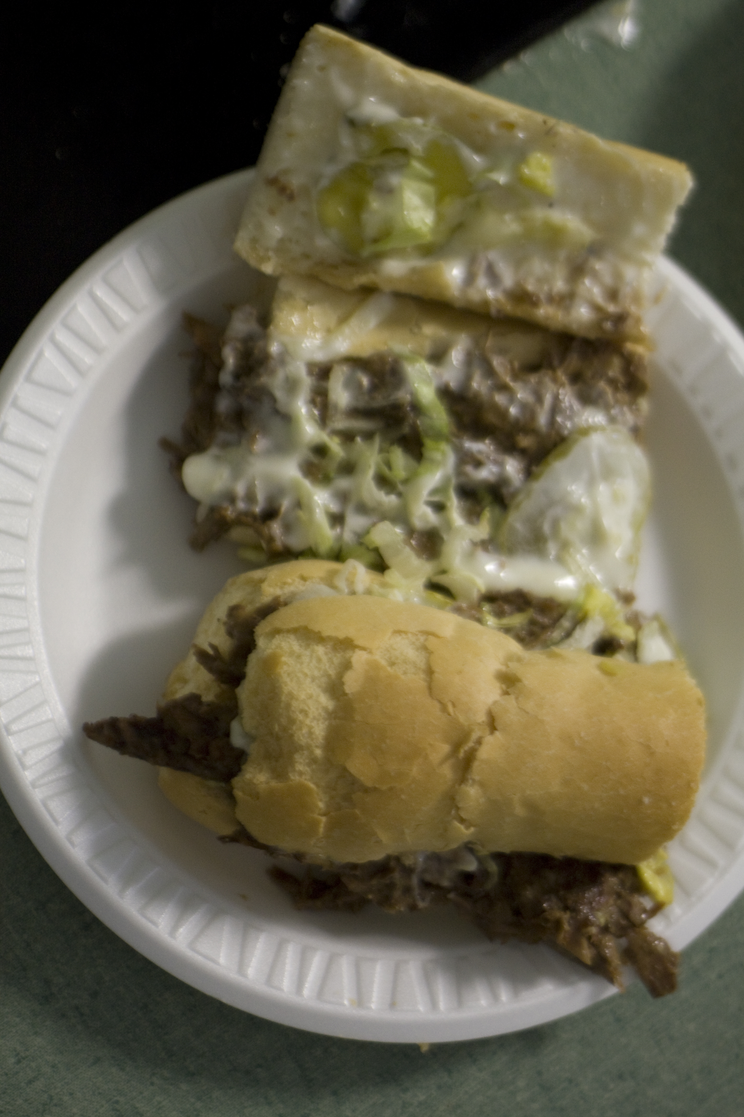 Roast beef po-boy (dressed) at Parasols Restauant, New Orleans.